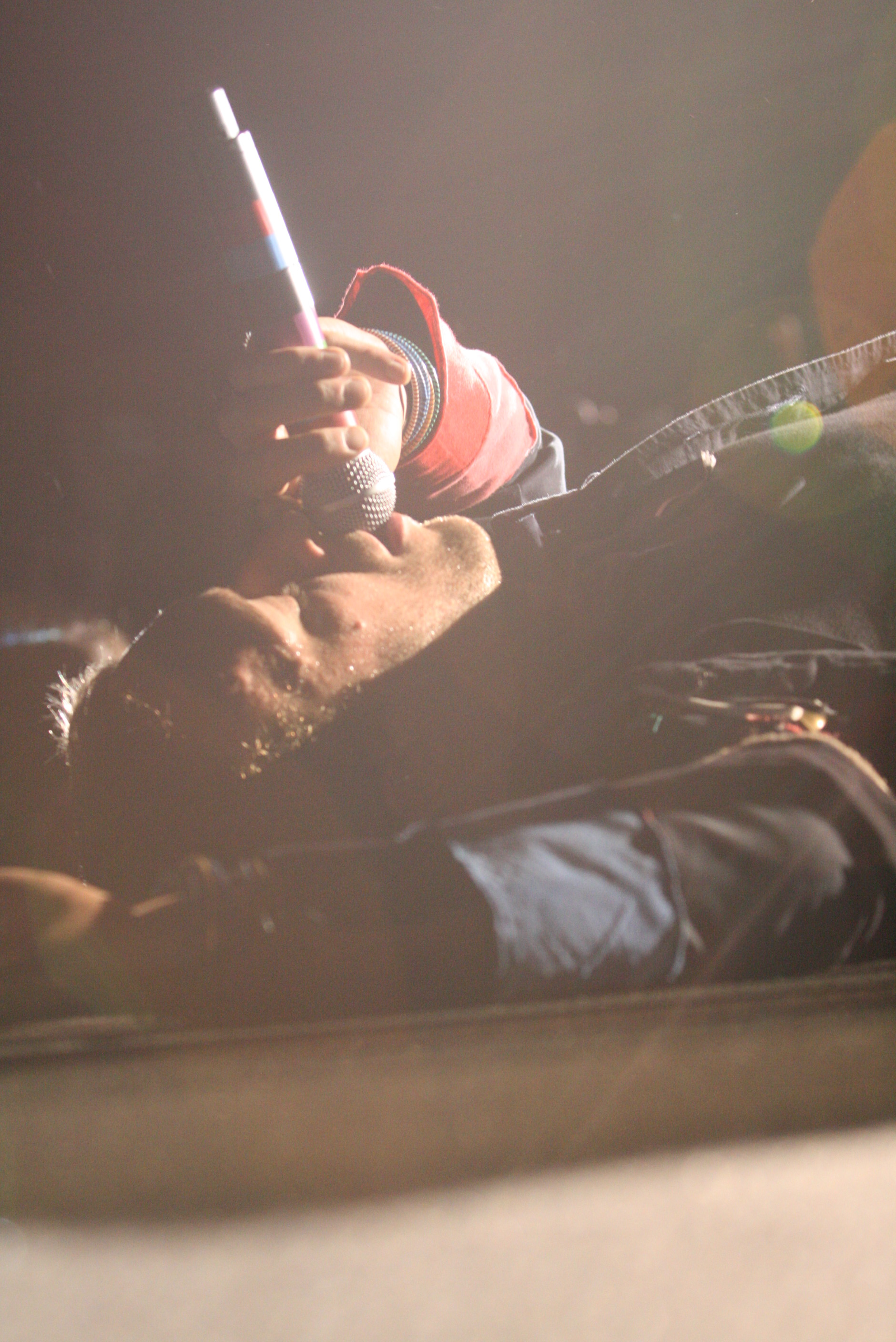 Chris Martin (from Coldplay) performing in Bogotá, Colombia. Foto: Carlos Mario Ríos.